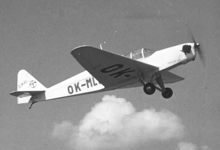 Zlin XII, This aircraft was registered to Masarykova Letecká Liga on February 2, 1938.